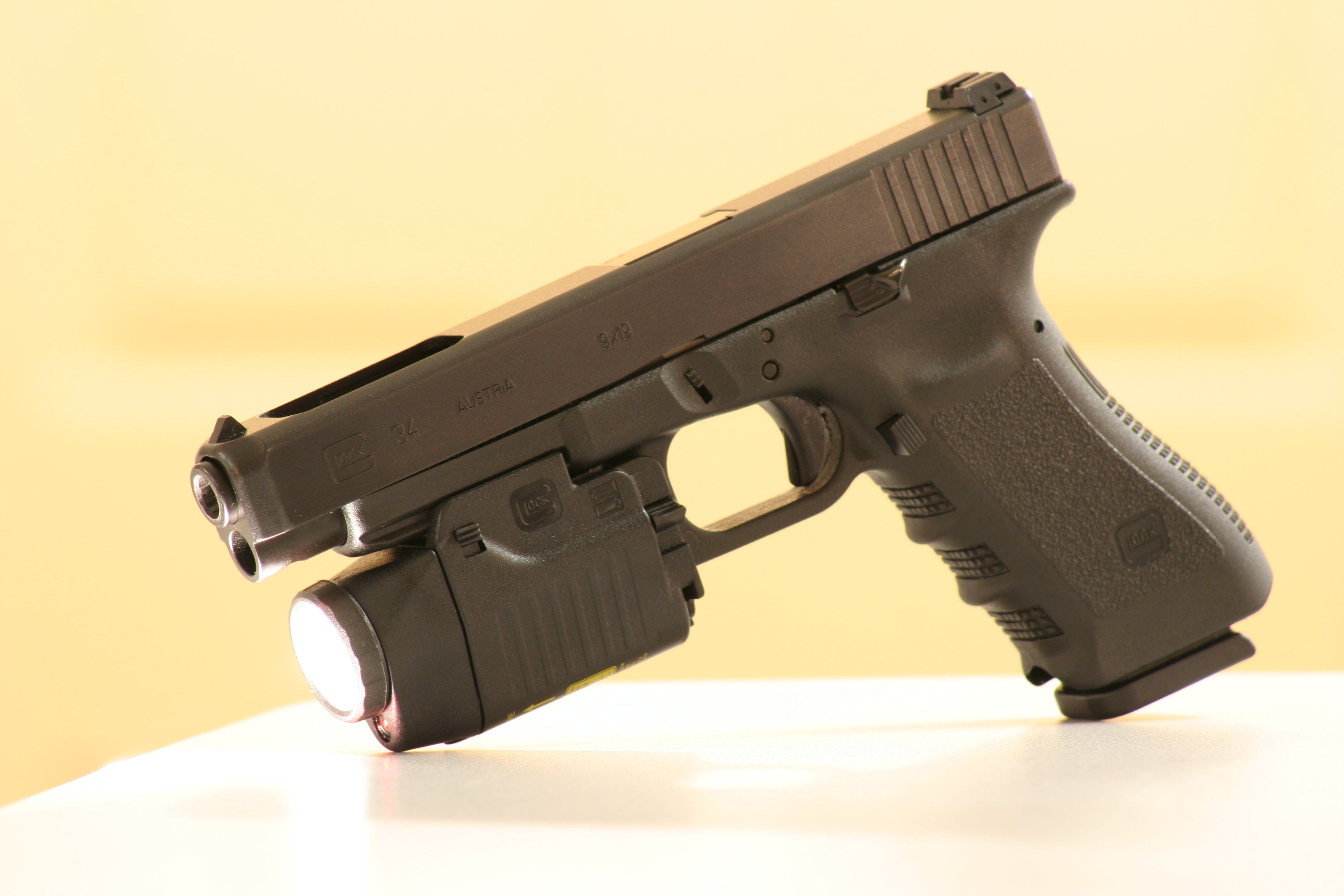 Glock 34 with a GTL 22 attachment